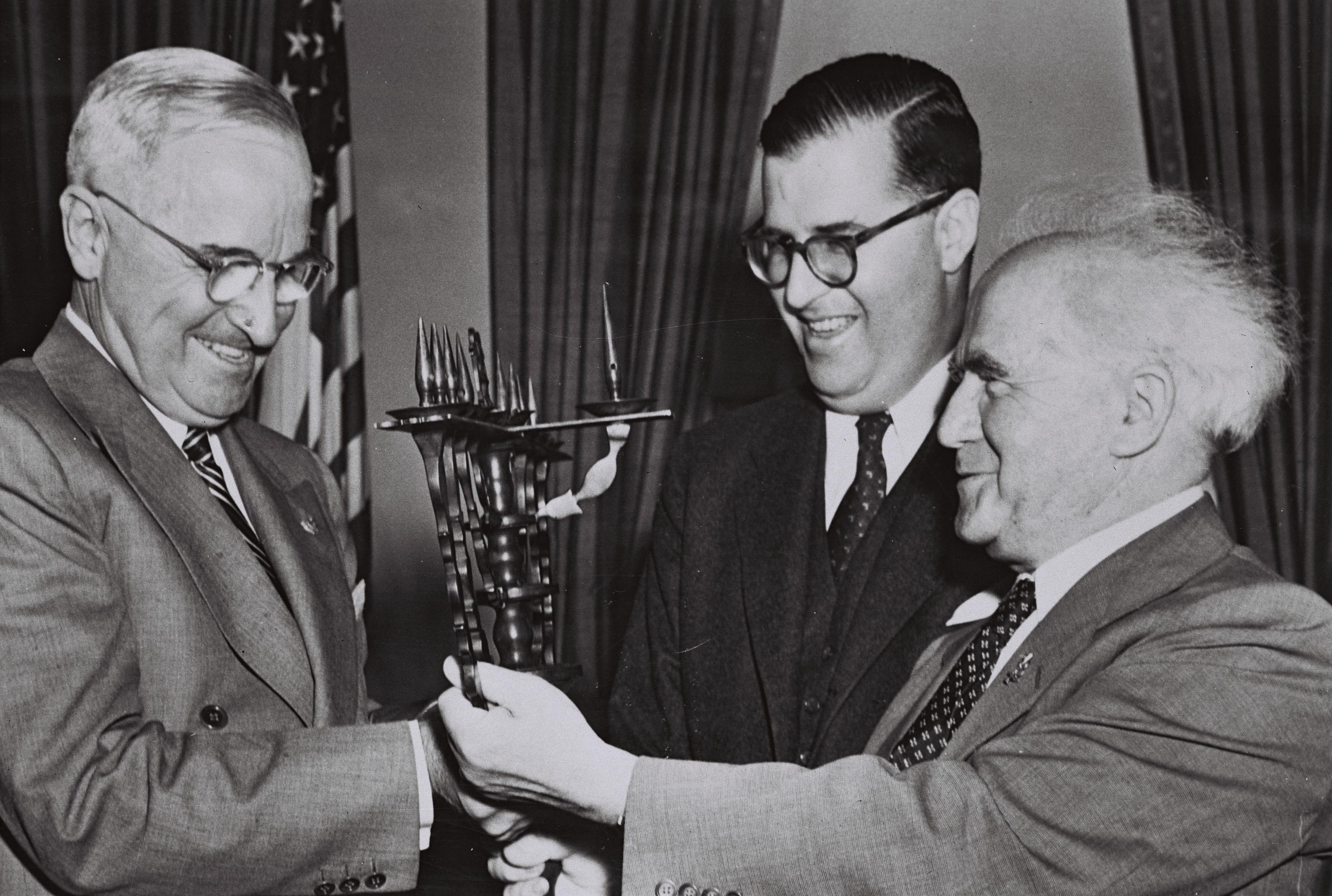 P.M. DAVID BEN GURION ACCOMPANIED BY MR. ABBA EBAN ISRAEL AMBASSADOR TO THE U.S.A. VISITS PRESIDENT HARRY TRUMAN DURING THIER VISIT TO THE STATES (01/05/1951).